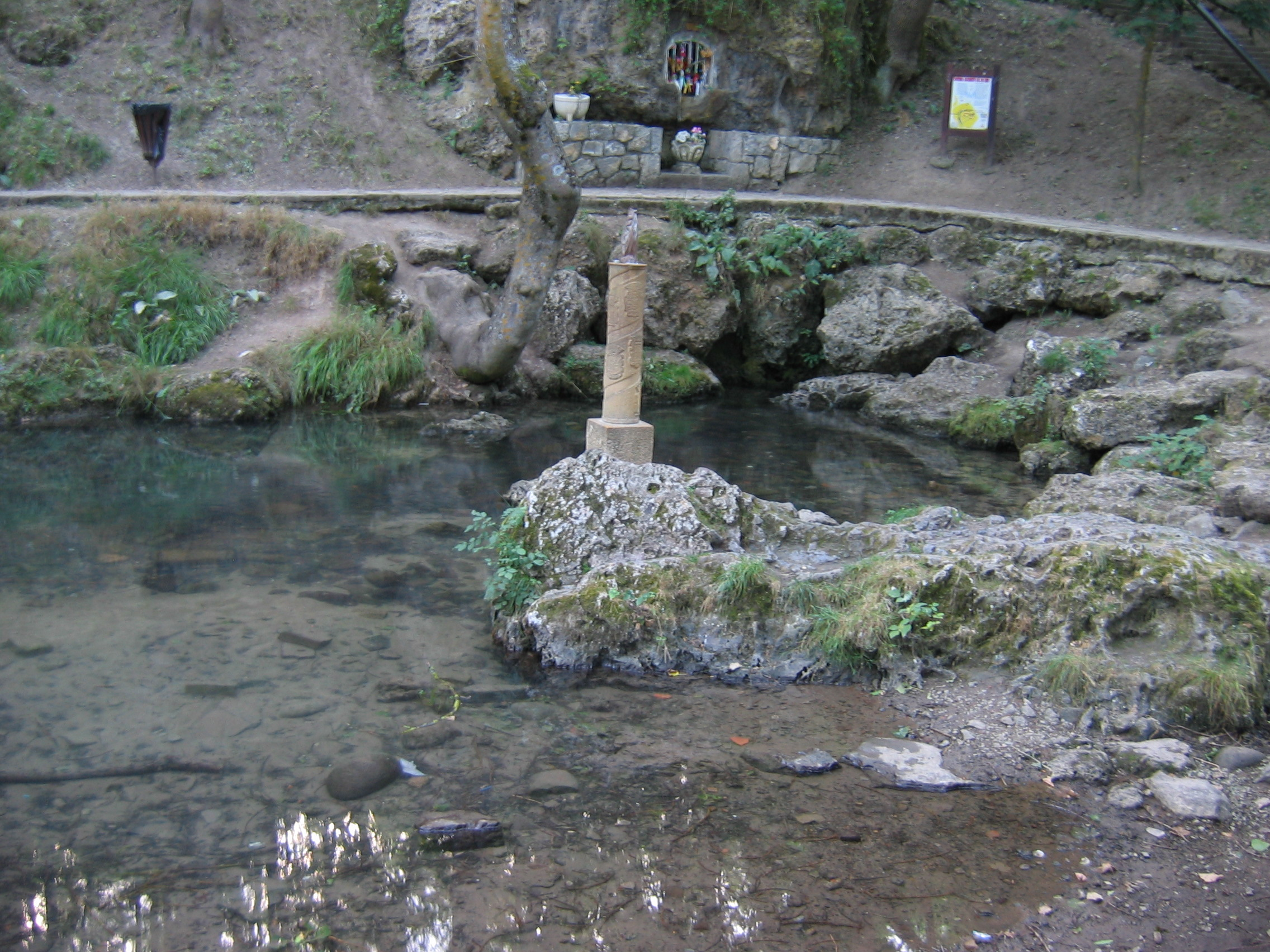 The source of The Ebro at Fontibre, Cantabria, Spain. The Ebro is the second longest river in the Iberian peninsula after the Tagus and the second biggest both by discharge volume and by drainage area after the Duero. In the pool at the source of the river Ebro is a replica of the Virgin of Pillar, inspired by the oil painting image by Francisco de Goya. Below the virgin is the shield depicting all the communities along the rivers course.